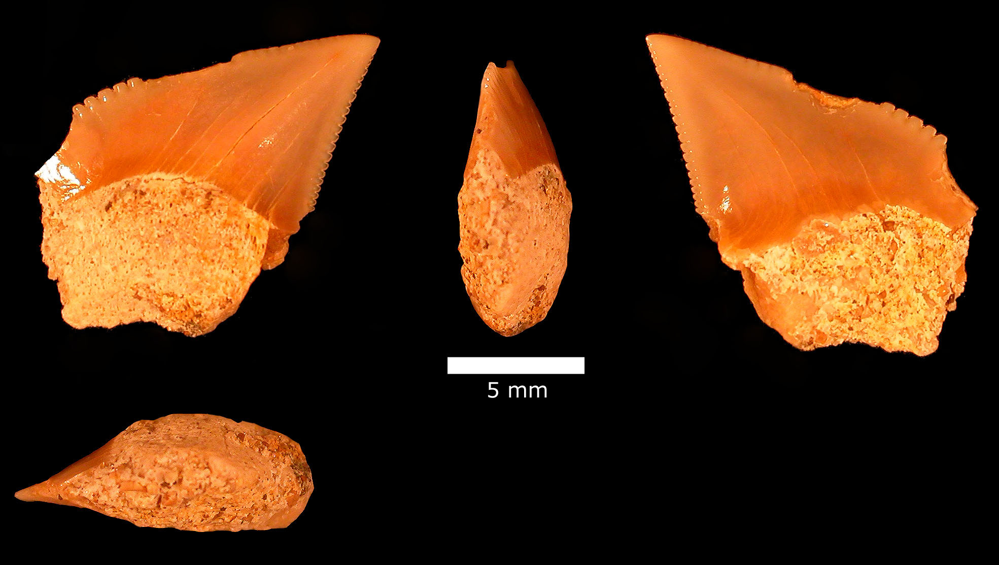 Squalicorax falcatus? tooth from the Menuha Formation, Makhtesh Ramon region, southern Israel.